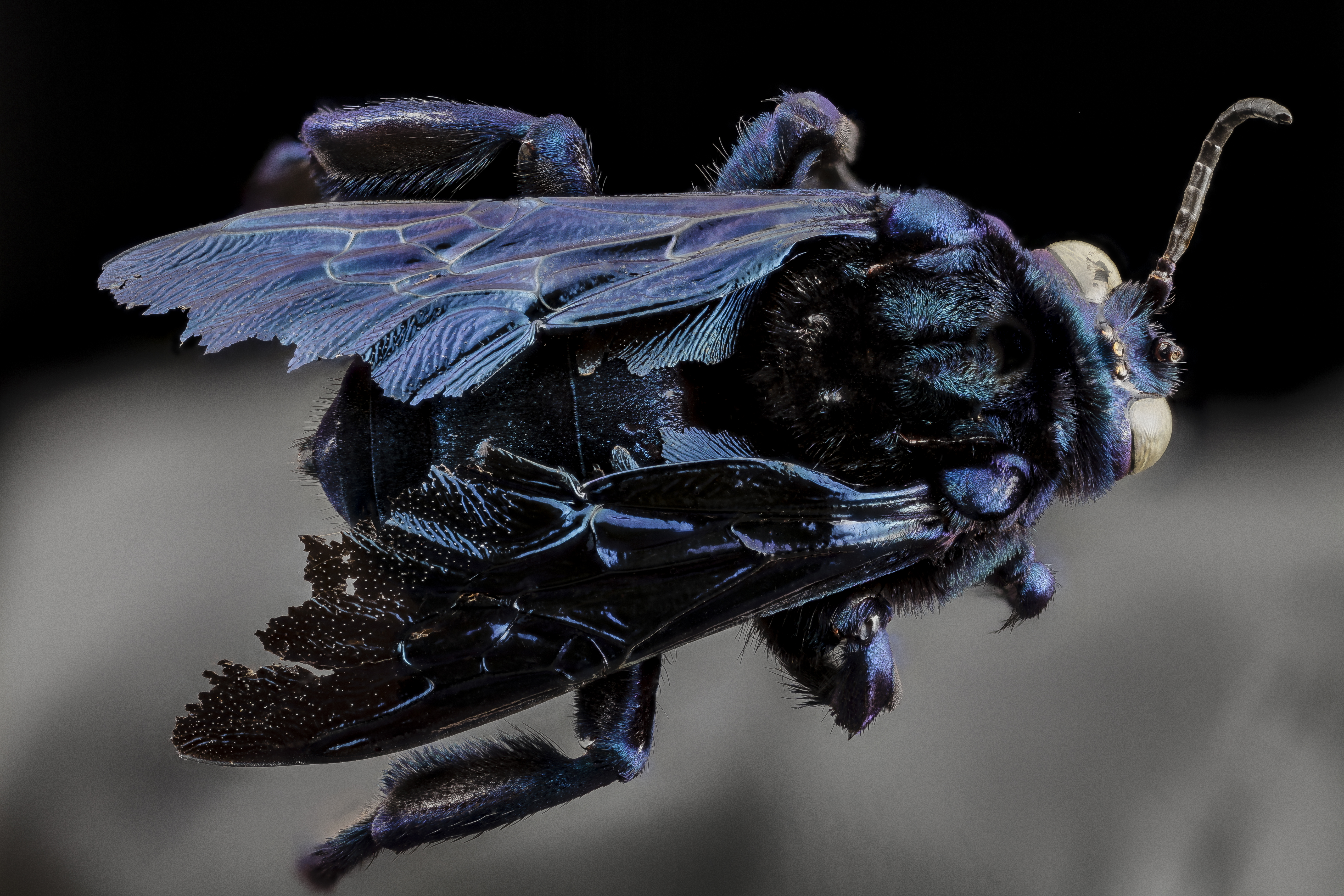 Monster cleptoparasite, this dramatic species is a nest parasite of bees in the genus Centris and is endemic to South America. Note the one shot of the lovely expanded tibial spurs. I do not know their function, but it may have to do with nest invasions, either digging or gripping the walls of the nest. Lovely metallic blue / purple colors. Note the frayed wings, this bee was at the end of its time on earth when captured. From the Packer Lab. 00:35, 11 September 2014 (UTC)00:35, 11 September 2014 (UTC) 0 00:35, 11 September 2014 (UTC)00:35, 11 September 2014 (UTC) All photographs are public domain, feel free to download and use as you wish. Photography Information: Canon Mark II 5D, Zerene Stacker, Stackshot Sled, 65mm Canon MP-E 1-5X macro lens, Twin Macro Flash in Styrofoam Cooler, F5.0, ISO 100, Shutter Speed 200 The murmuring of bees has ceased; But murmuring of some Posterior, prophetic, Has simultaneous come,-- The lower metres of the year, When nature's laugh is done,-- The Revelations of the book Whose Genesis is June. -Emily Dickinson Want some Useful Links to the Techniques We Use? Well now here you go Citizen: Basic USGSBIML set up: USGSBIML Photoshopping Technique: Note that we now have added using the burn tool at 50% opacity set to shadows to clean up the halos that bleed into the black background from "hot" color sections of the picture. PDF of Basic USGSBIML Photography Set Up: ftp://ftpext.usgs.gov/pub/er/md/laurel/Droege/How%20to%20Take%20MacroPhotographs%20of%20Insects%20BIML%20Lab2.pdf Google Hangout Demonstration of Techniques: or Excellent Technical Form on Stacking: Contact information: Sam Droege 301 497 5840